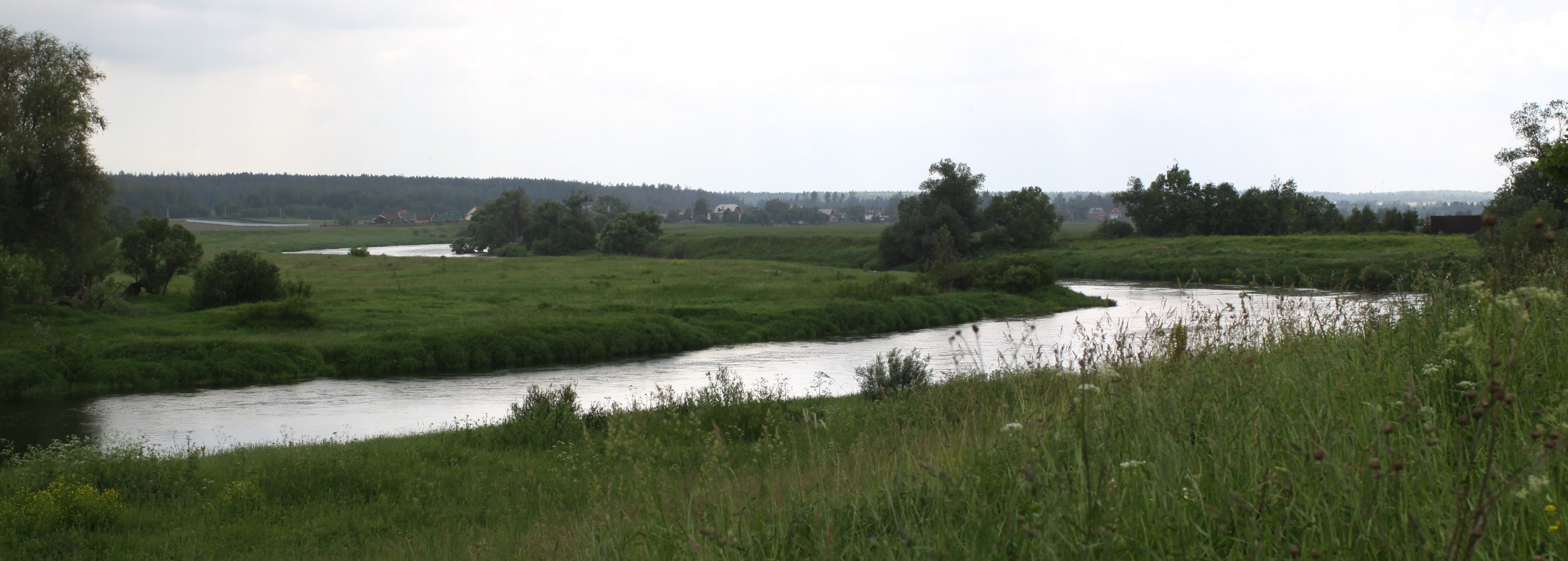 Moskva River near Mihajlovskoe.